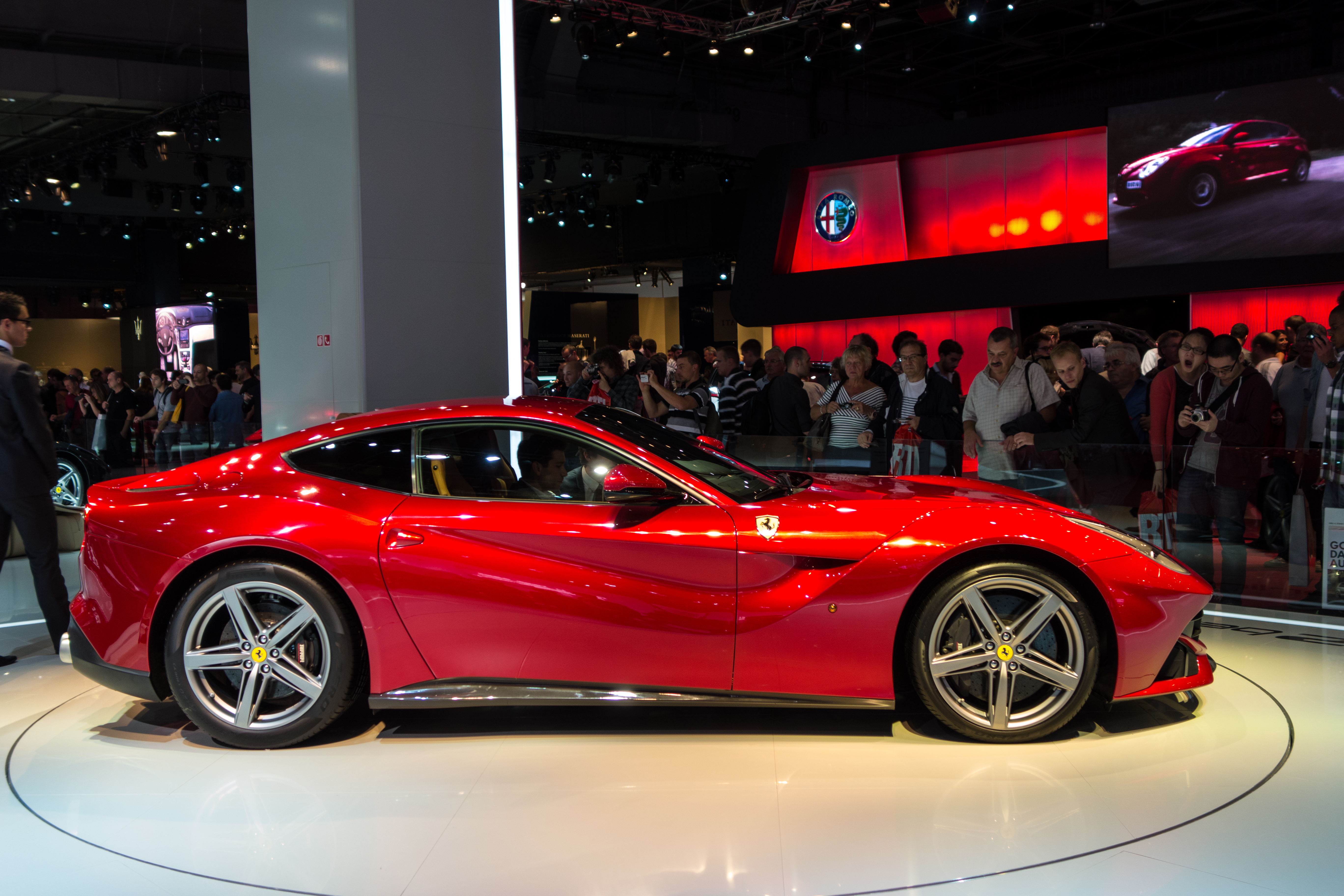 Mondial De L'automobile Paris 2012 | Paris Motor Show 2012